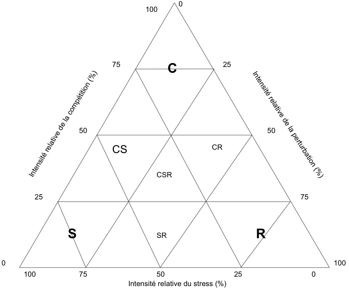 representation of CSR strategy